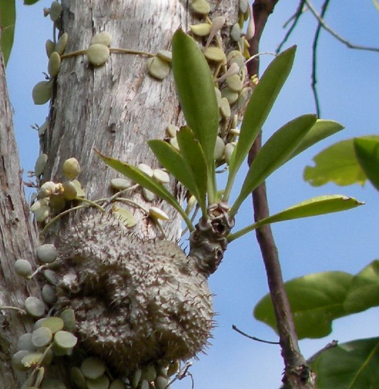 Myrmecodia beccarii (Ant Plant) growing epiphytically on Lophostemom suaveolens with Dischidia nummularia (Button Orchid - not a true orchid) in wetlands of tropical north Queensland, Australia. You can see Dischidia flowers silhouetted against the sky in the fork of the tree, and three tear-drop shaped fruits immediately above the two largest Myrmecodia leaves.